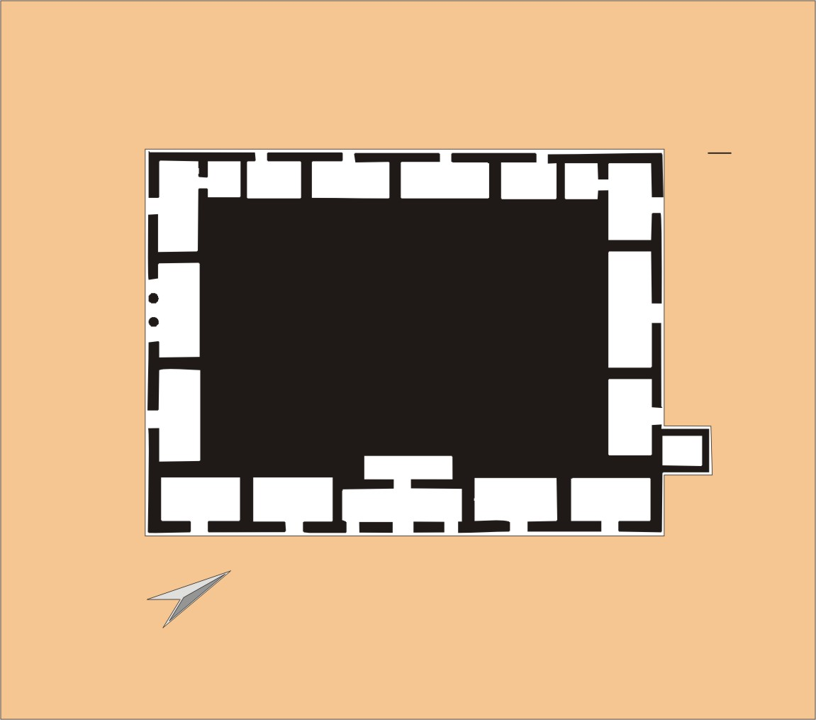 Sayil, Yucatán, Mexico: South Palace, plan.